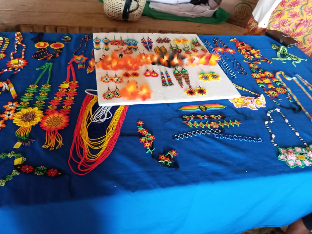 Handicrafts from Canton Gualaquiza made by the Shuar people